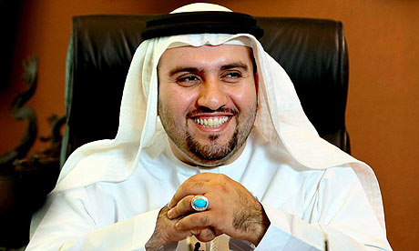 Sulaim AlFahim